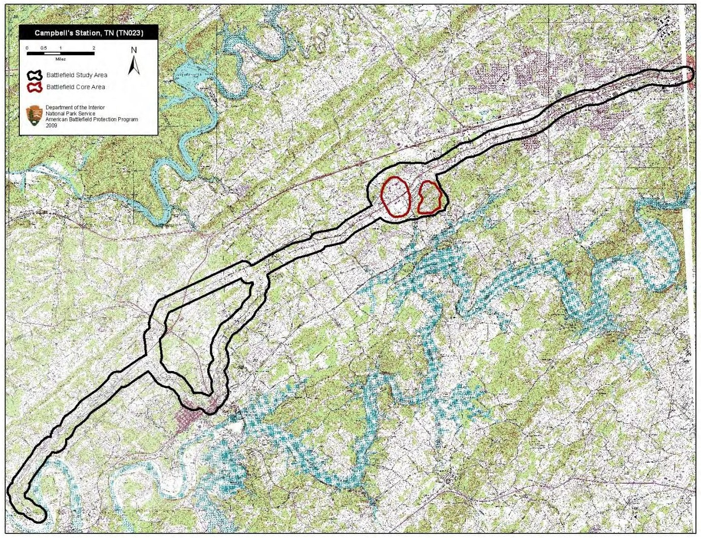 Map of battlefield core and study areas.